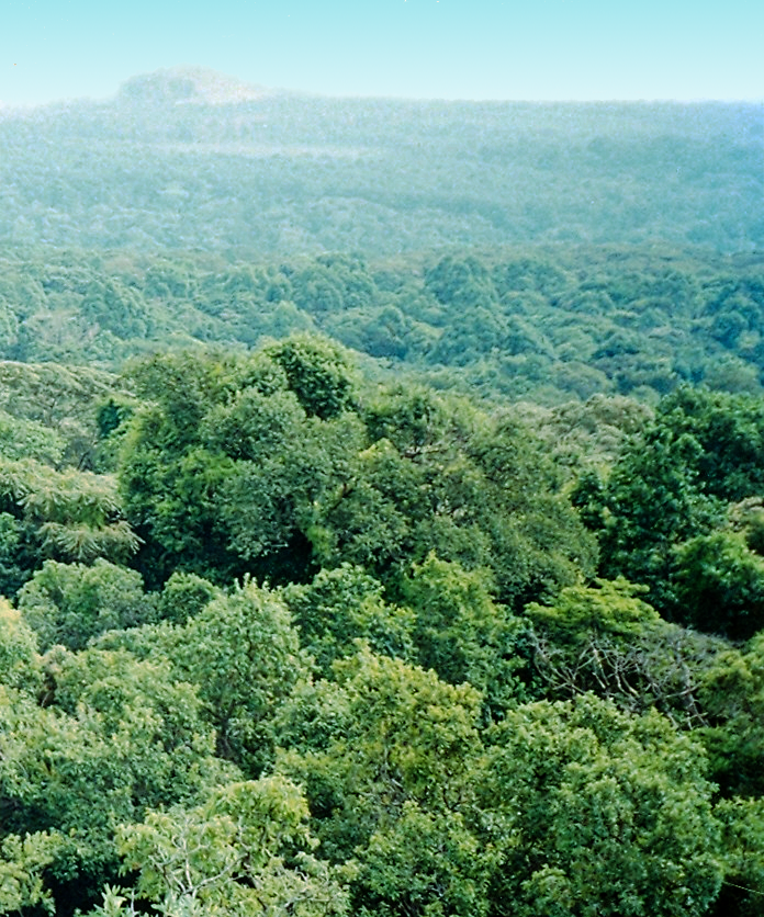 Kakamega Forest, Kenya. dust removed, cropped and color enhanced